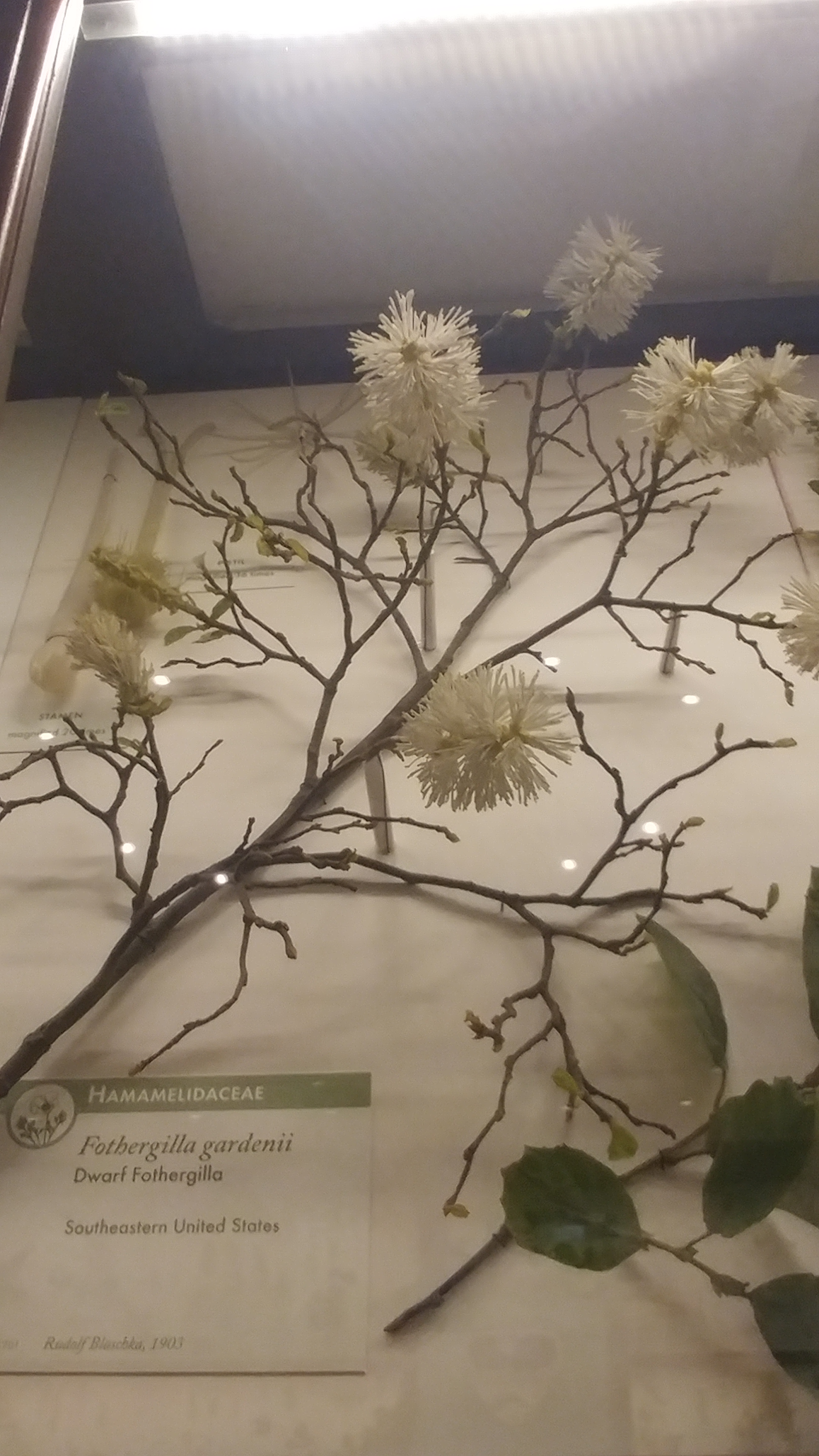 Harvard Museum of Natural History Glass Flowers Exhibit